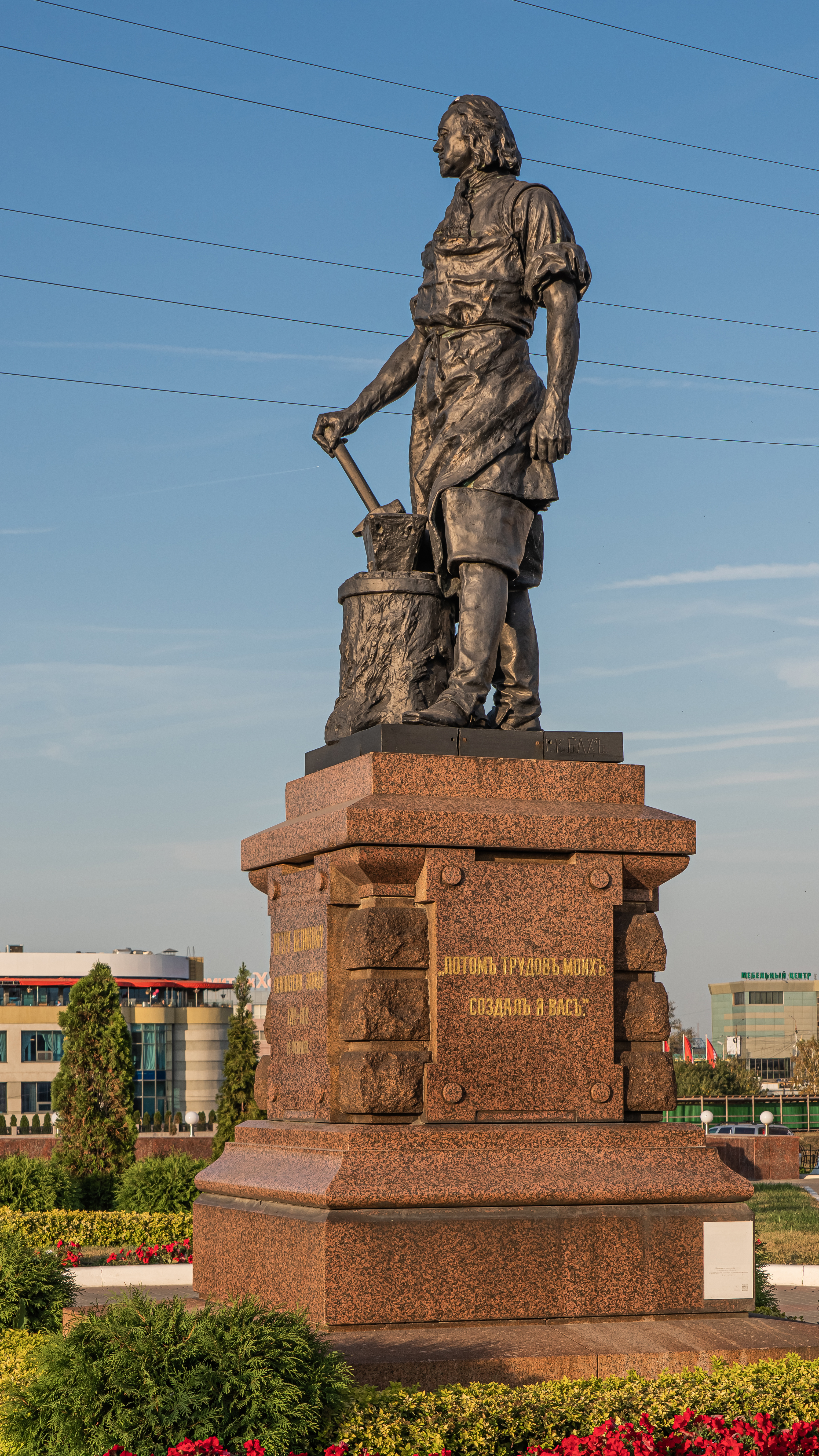 Monument to Peter I in Tula, Russia